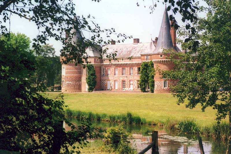 15th century chateau Maillebois, Hubert Latham's family estate near Chartres, France, purchased by Latham's father in 1882. It is still in the Latham family